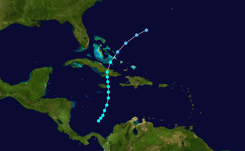 1899 Atlantic tropical storm 9 track. Uses the color scheme from the Saffir-Simpson Hurricane Scale.